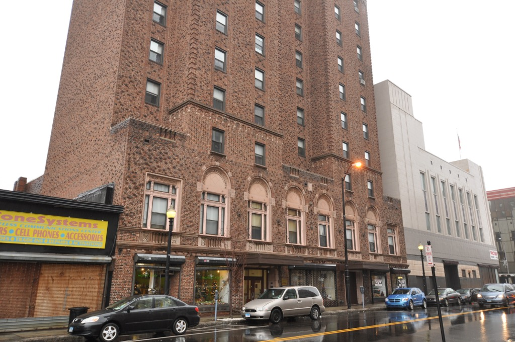 The Hotel Beach (aka the Hotel Barnum) building in Bridgeport, Connecticut